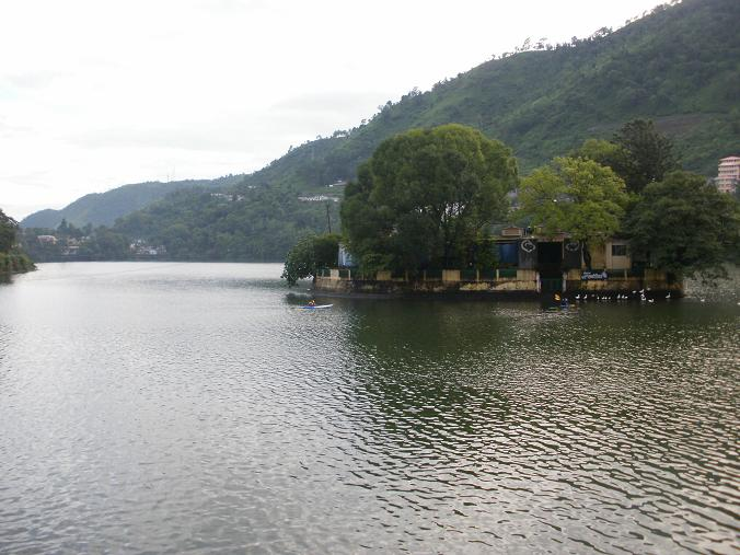 Bhimtal